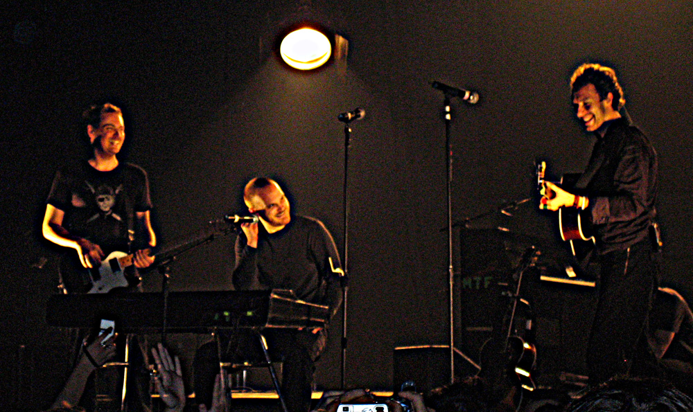 Coldplay in Barcelona, 2005.